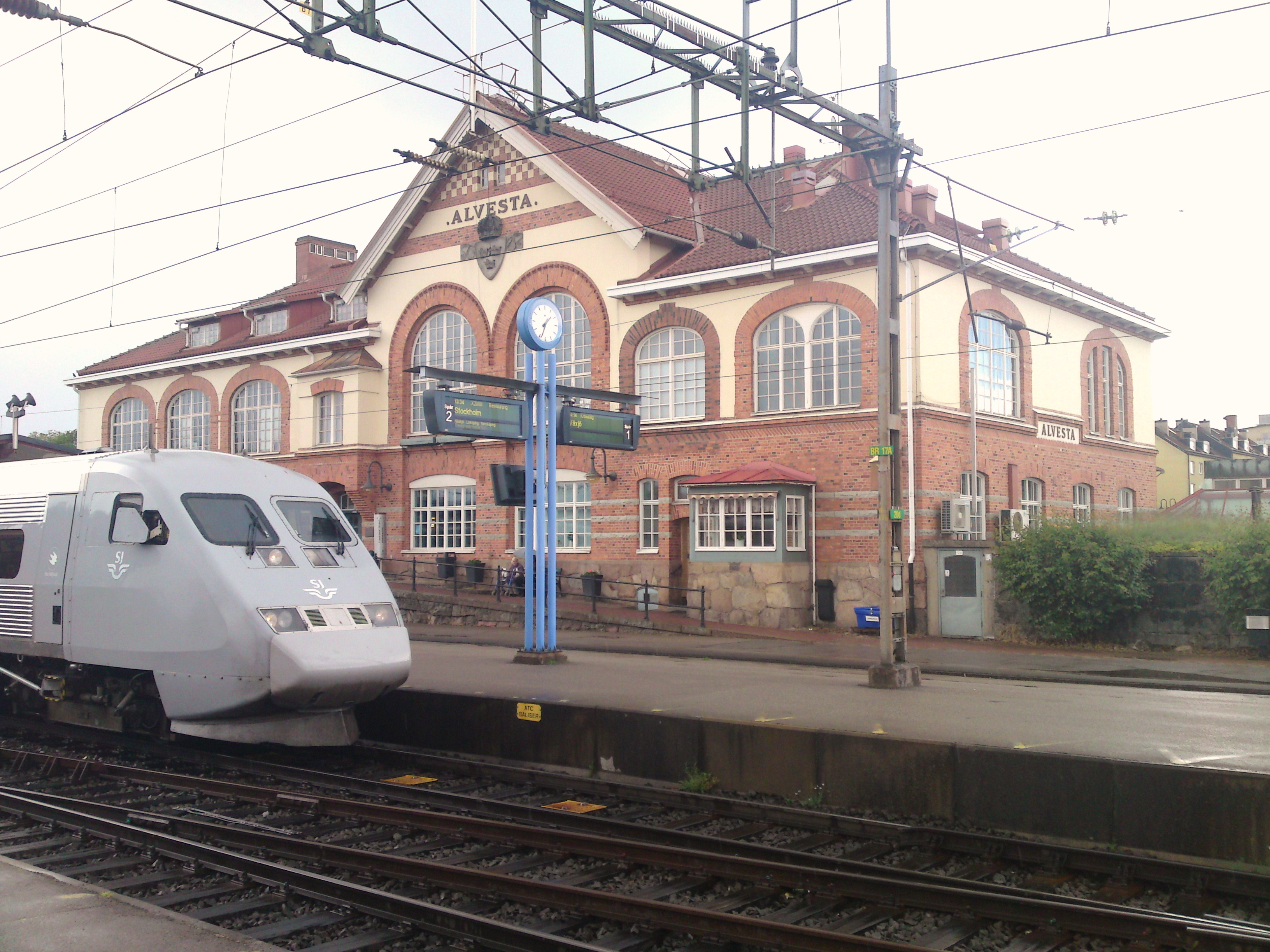 Alvesta central station with an X2000-train.